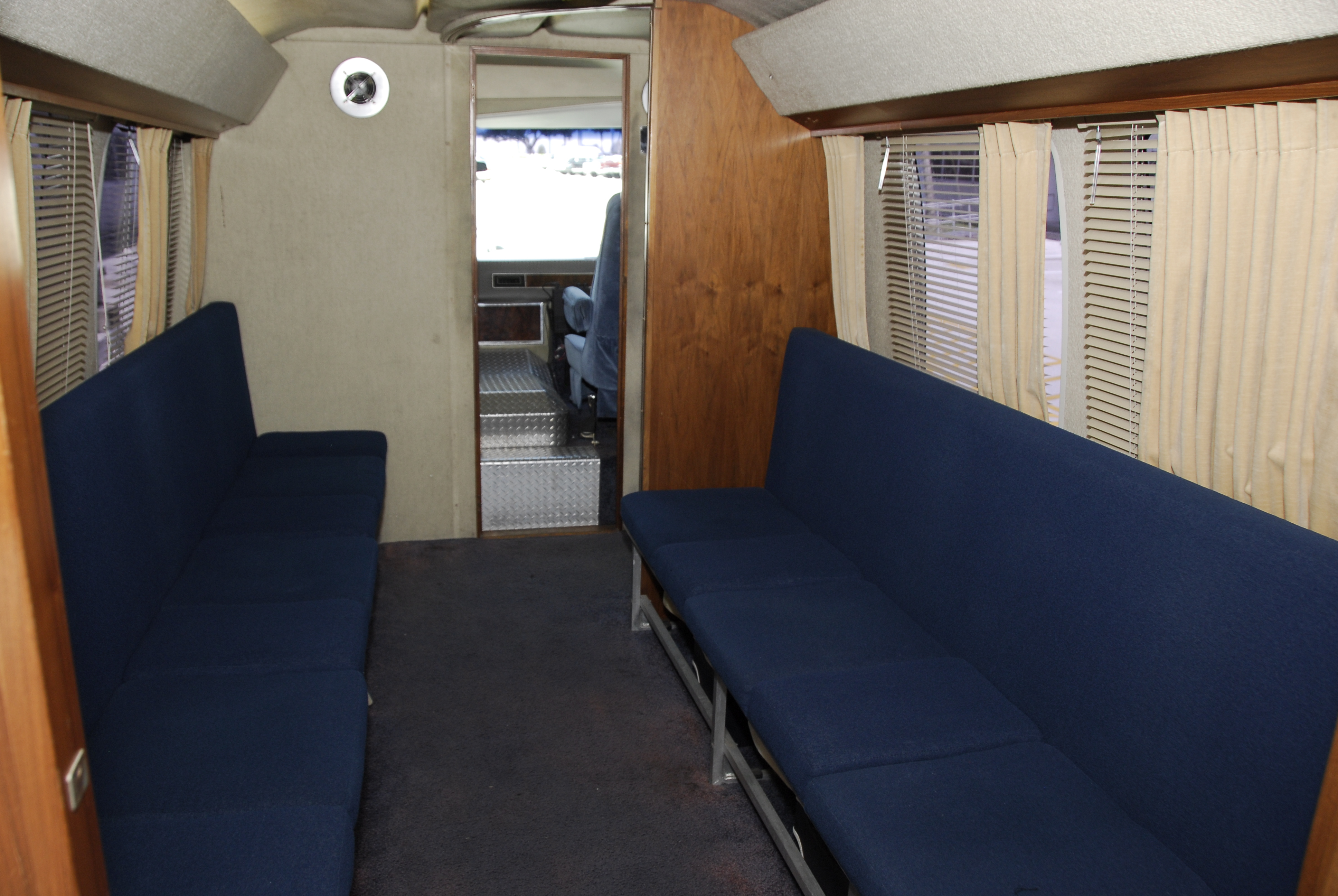 Interior of the NASA Astrovan astronaut transport vehicle